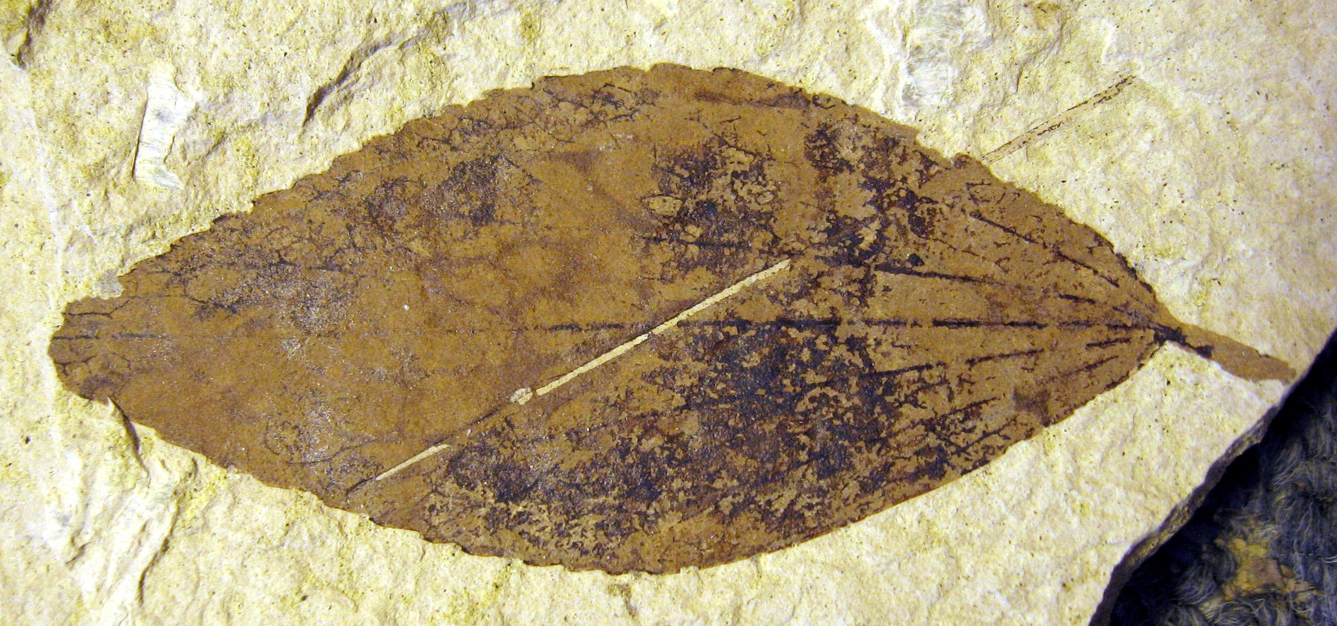 Trochodendron nastae Holotype. A 7.8cm leaf. Klondike Mountain Formation, Republic, Ferry County, Washington, USA, Eocene, Ypresian, 49million years old. Stonerose Interpretive Center Collection # SR 98-02-01 A